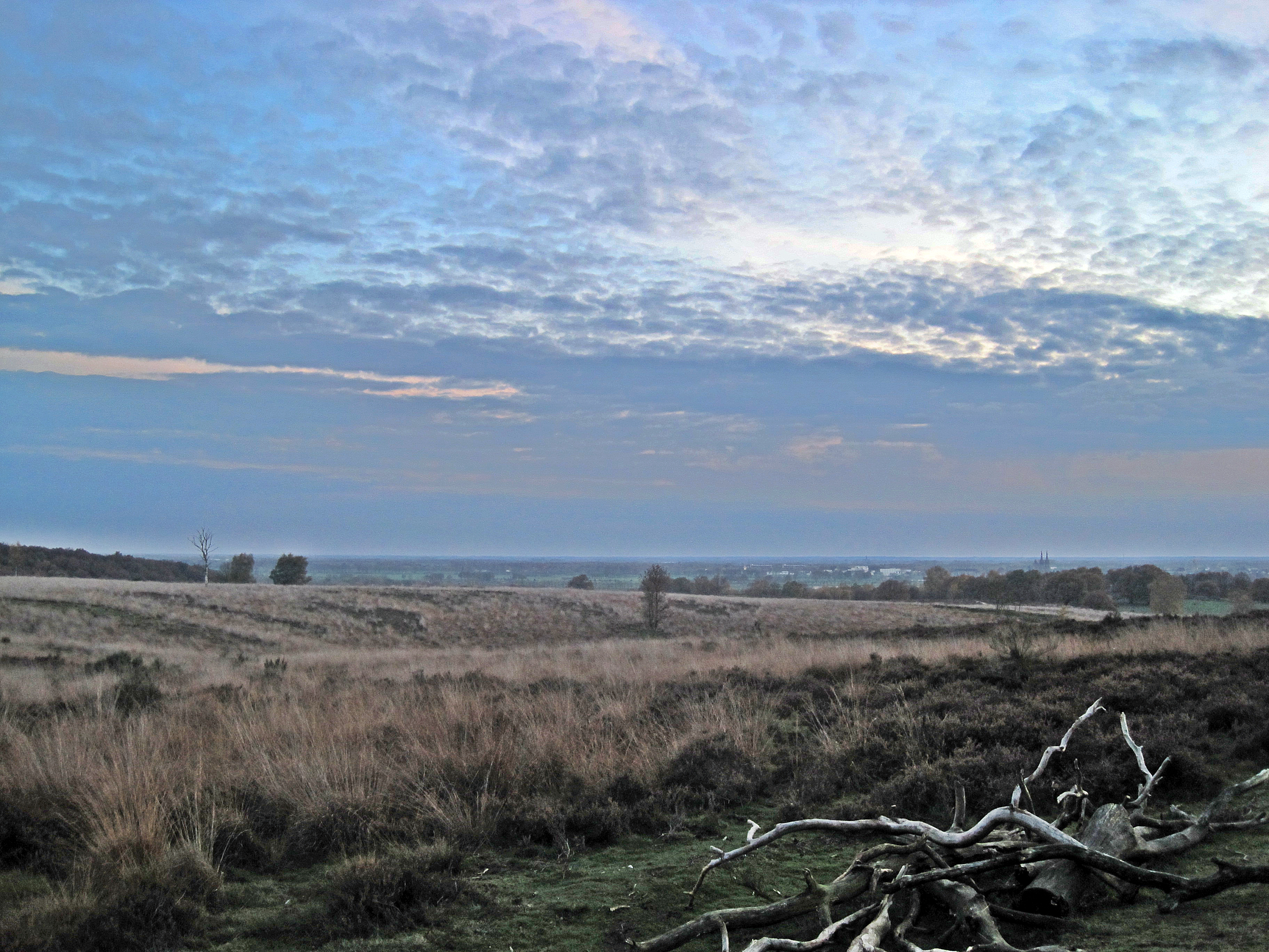 Mookerheide, view towards Cuijk, Mook, the Netherlands